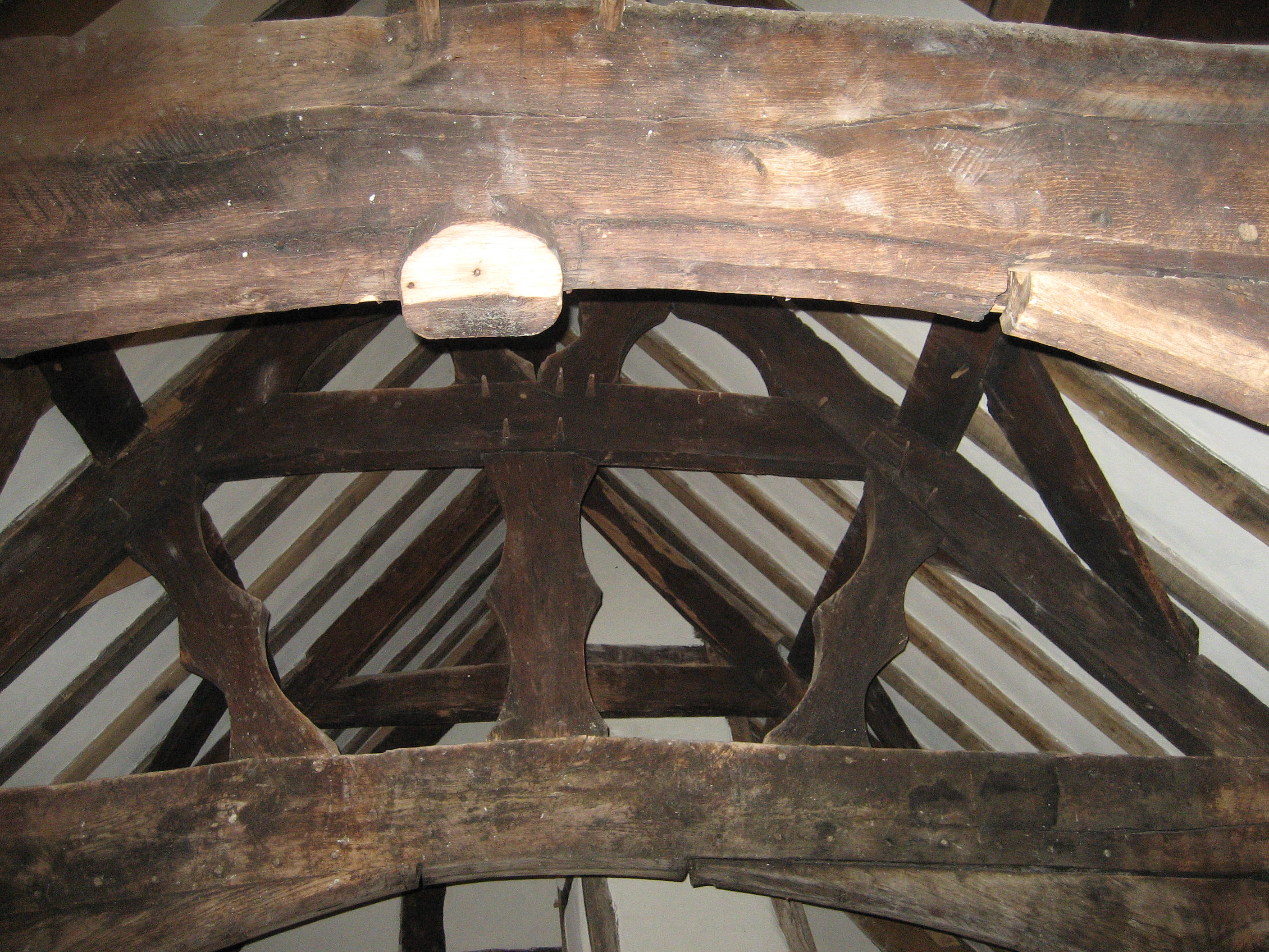 Decorated timber truss, Ty Mawr, Castle Caereinion. The saw marks from a pit saw are visible.